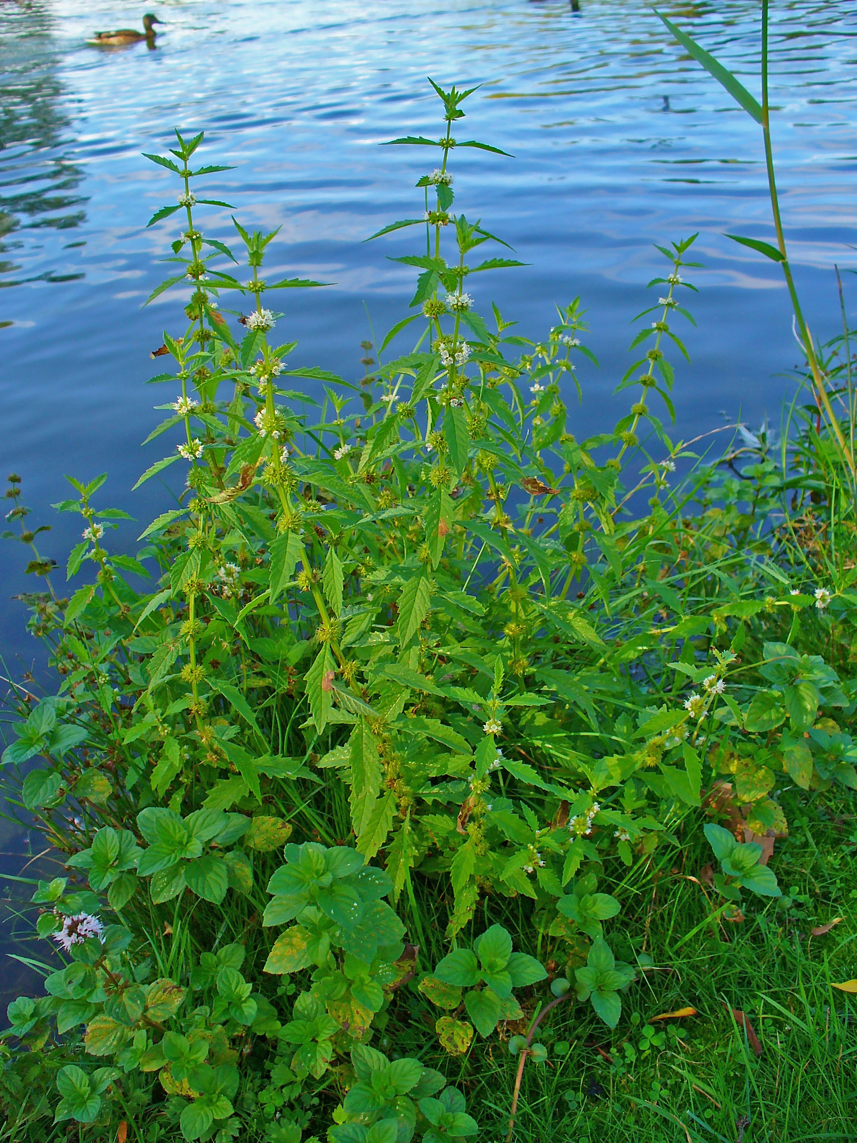 Lycopus europaeus, Lamiaceae, Gipsywort, Bugleweed, European Bugleweed, Water Horehound, habitus; Karlsruhe, Germany. The fresh, aerial parts of blooming plants are used in homeopathy as remedy: Lycopus europaeus (Lycps-eu.)